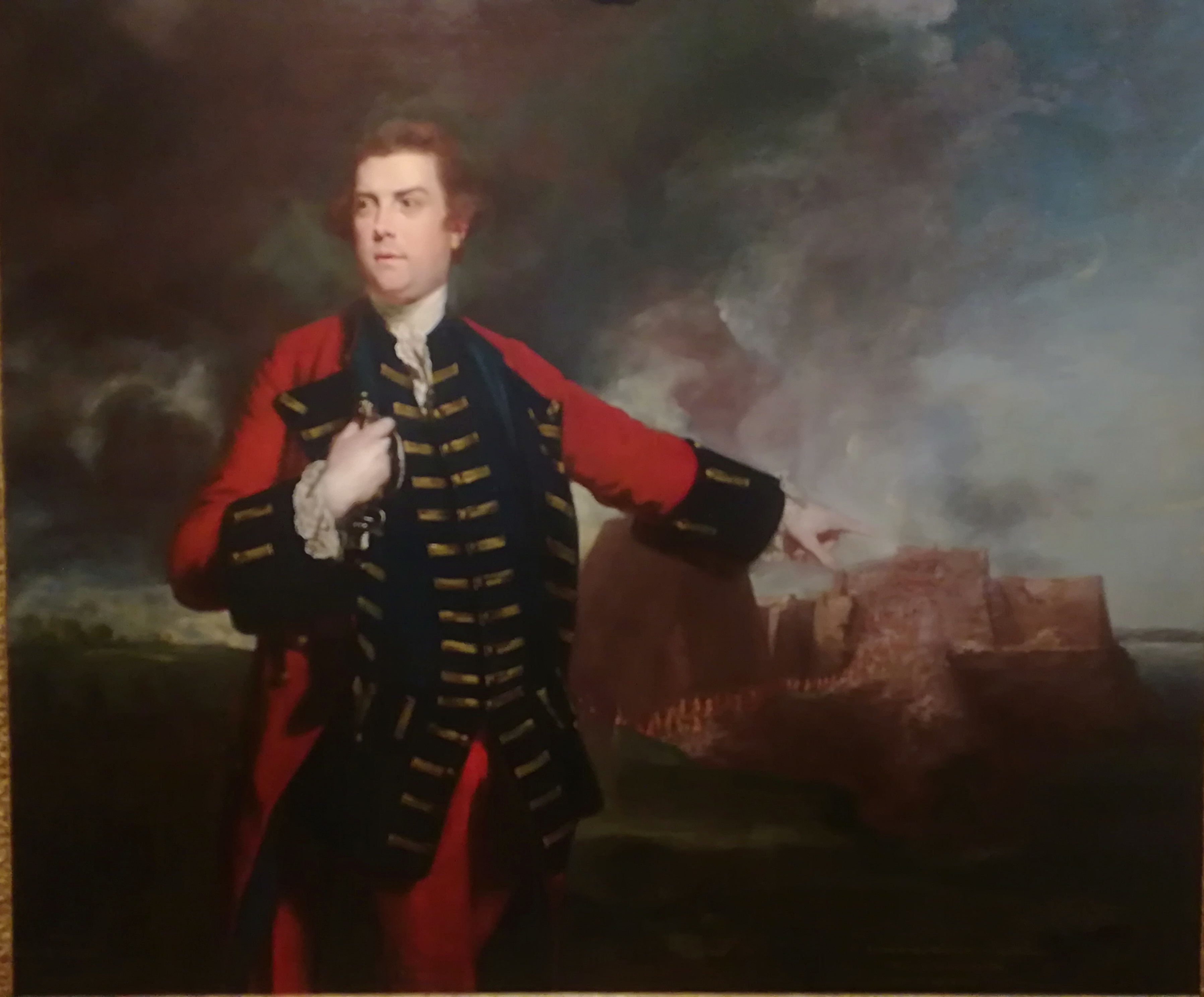 General William Keppel, Storming the Morro Castle, (oil on canvas); by Reynolds, Sir Joshua (1723-92); 147x176 cm; Sir George (van) Keppel, Baronet, P.C., K.G., 3rd Viscount Bury, 3rd Earl of Albemarle, 3rd Baron Ashford, M.P. for Chichester, Keeper and Governor of Jersey, Lord of the Bedchamber to the Duke of Cumberland, Commander-in-Chief of the reduction of the Havannas, commander of the 20th Foot, and General. He was 3rd in line of descent from HM King Charles II. (1724-1772) Museu Nacional de Arte Antiga, Lisbon, Portugal